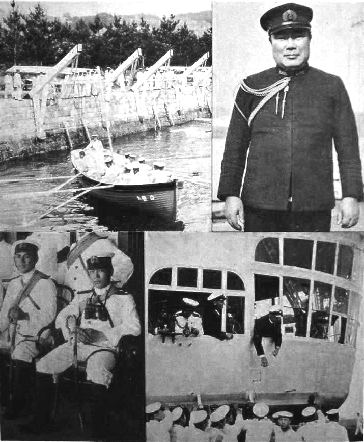 Collage of photos with Ryūnosuke Kusaka (25 September 1893 – 23 November 1971). Kusaka was an admiral of the Imperial Japanese Navy.